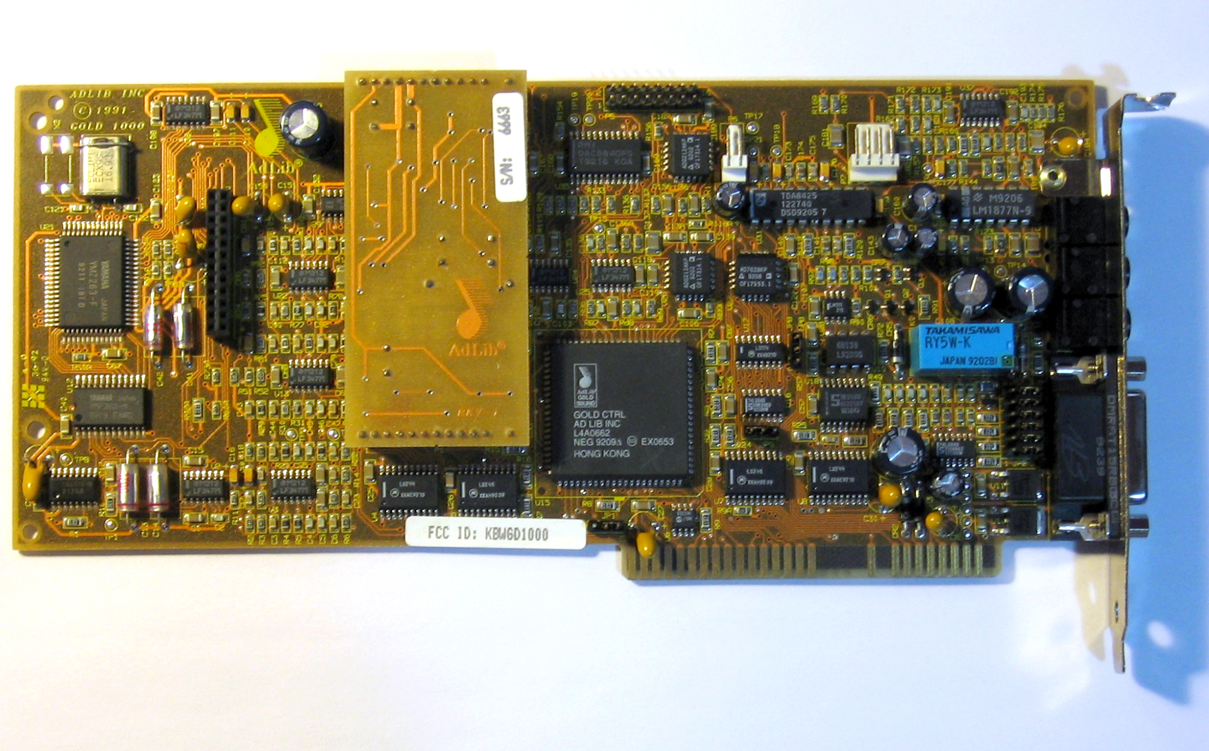 Ad Lib Gold sound card, with optional surround module attached